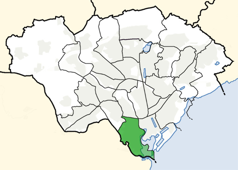 Location map showing electoral ward of Grangetown within Cardiff, Wales